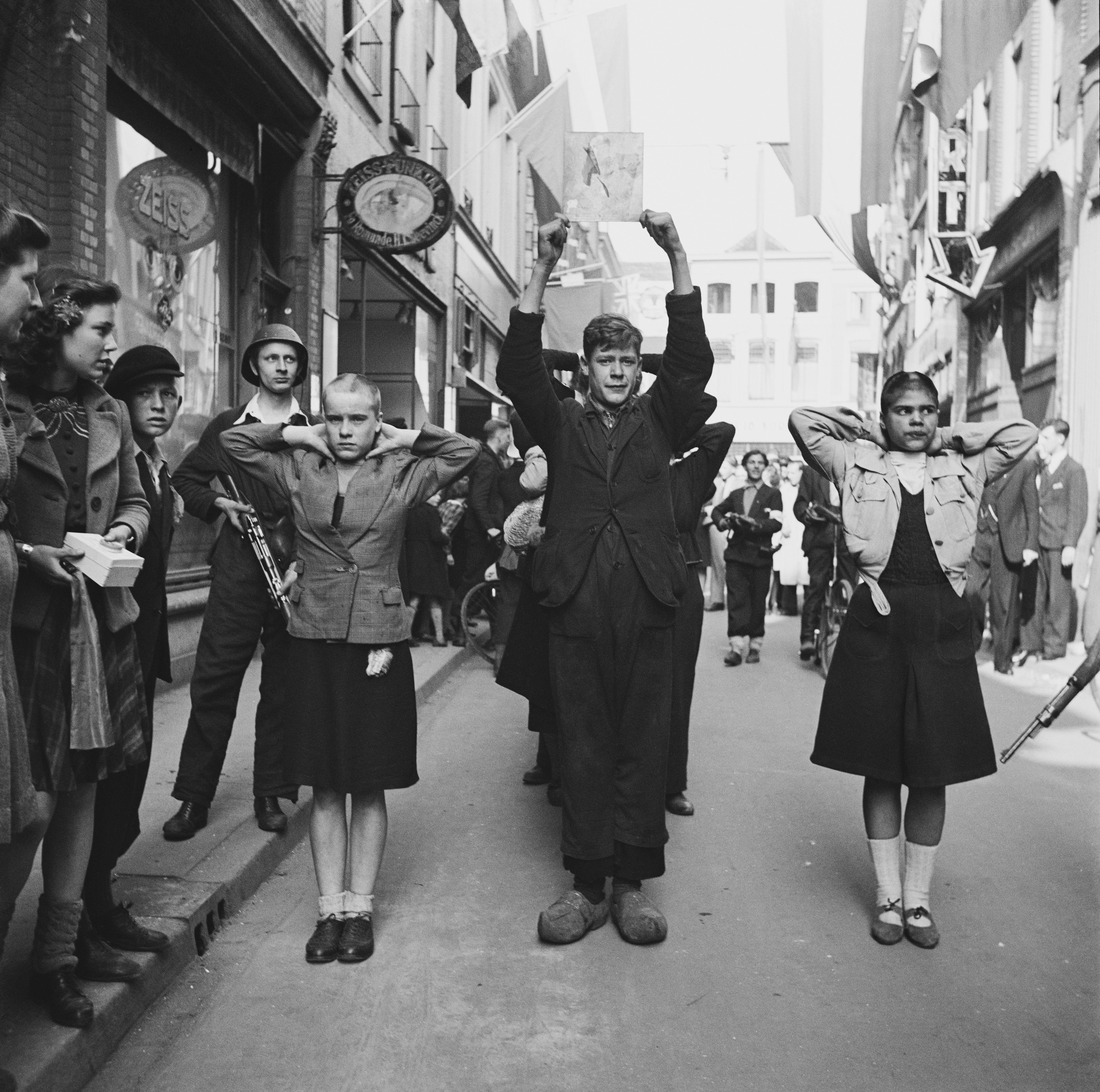 Members of the NSB (Dutch national socialist party) and shaven 'kraut girls' are being brought in by members of the Dutch Resistance.